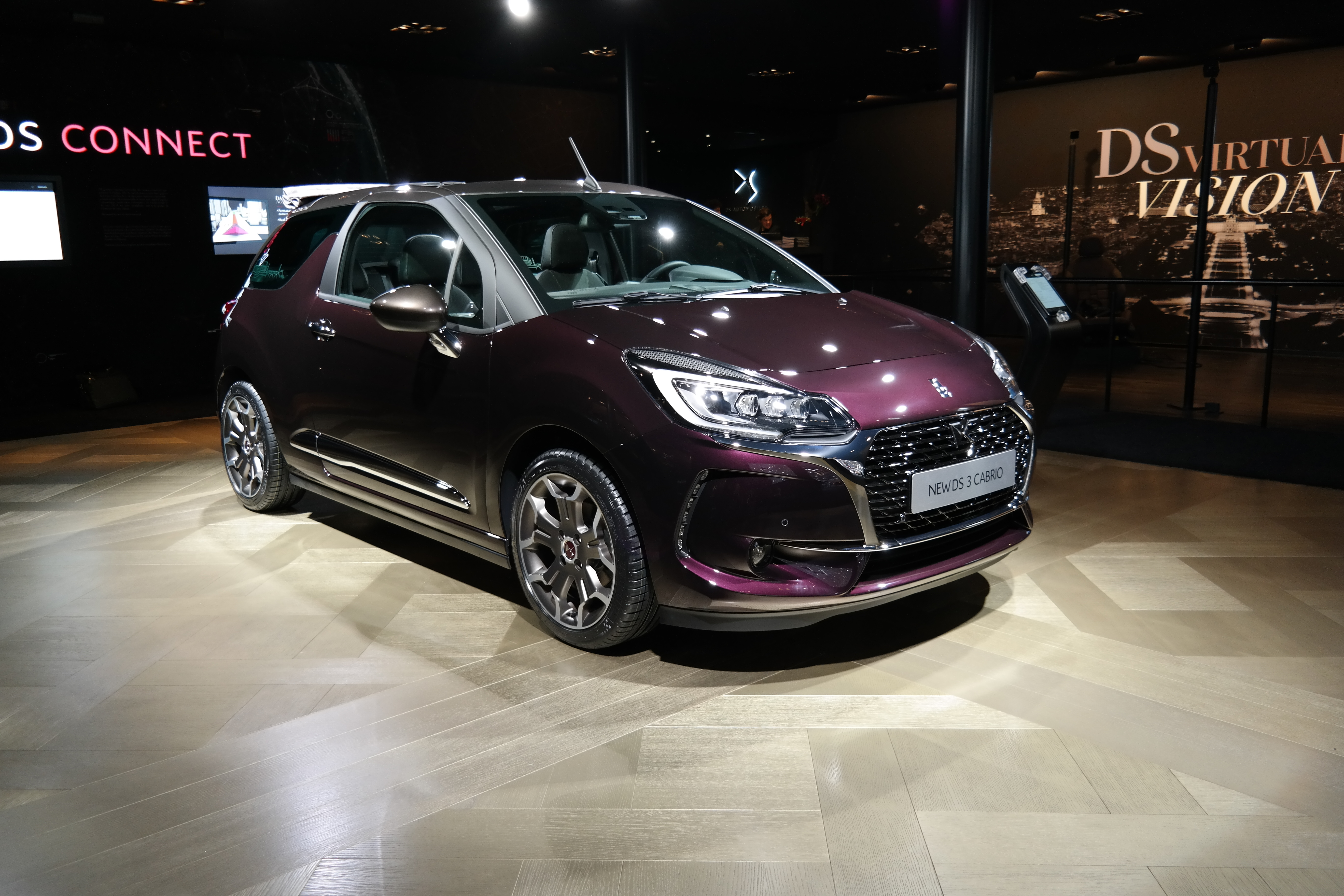 Geneva Motor Show 2016 (photo taken on the first press day)